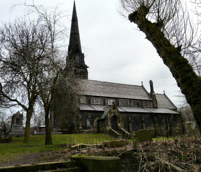 Brookfield Unitarian Church. Viewed from the burial ground 1178542. For information on Brookfield Unitarian Church